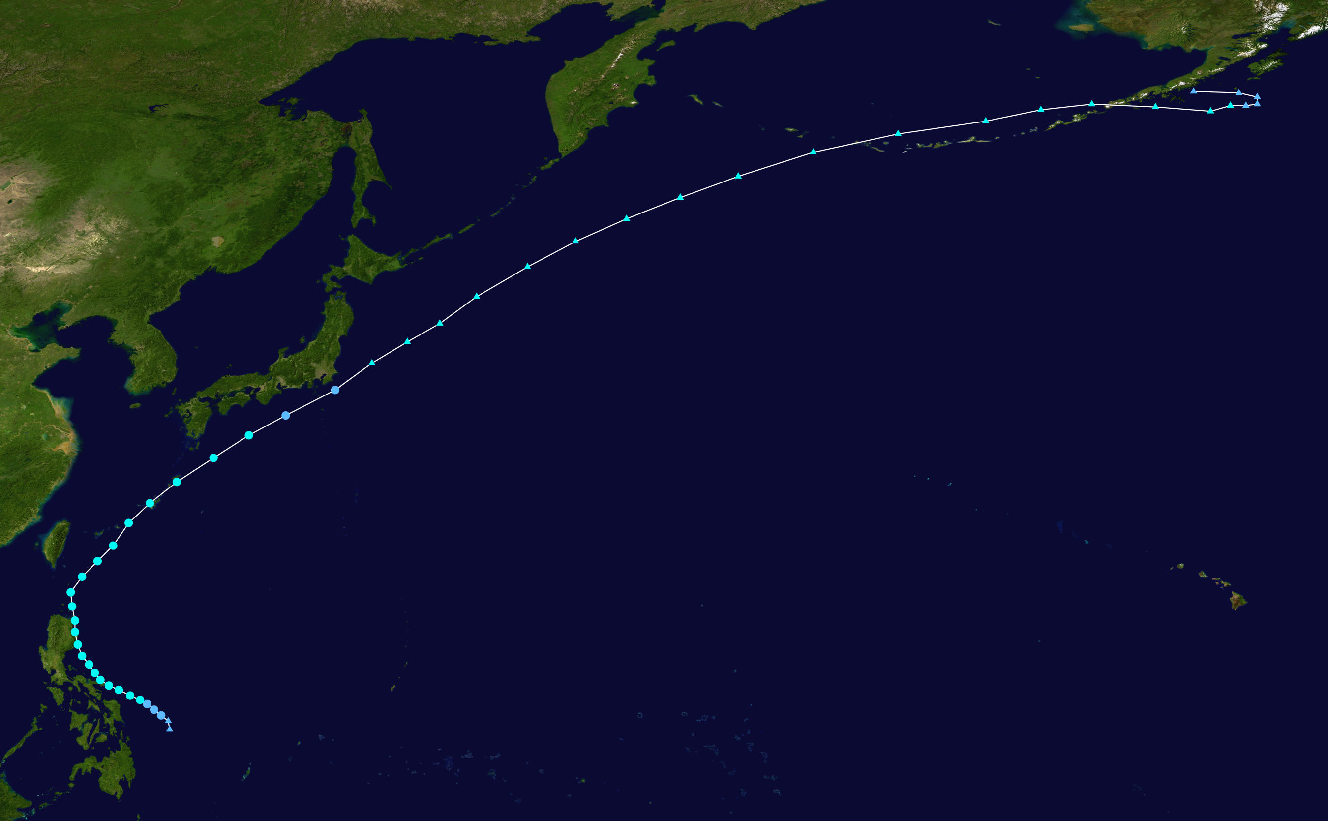 Track map of Tropical Storm Aere of the 2011 Pacific typhoon season. The points show the location of the storm at 6-hour intervals. The colour represents the storm's maximum sustained wind speeds as classified in the Saffir–Simpson scale (see below), and the shape of the data points represent the nature of the storm, according to the legend below. Saffir–Simpson scale Tropical depression≤38 mph≤62 km/h Category 3111–129 mph178–208 km/h Tropical storm39–73 mph63–118 km/h Category 4130–156 mph209–251 km/h Category 174–95 mph119–153 km/h Category 5≥157 mph≥252 km/h Category 296–110 mph154–177 km/h Unknown Storm type Tropical cyclone Subtropical cyclone Extratropical cyclone / Remnant low / Tropical disturbance / Monsoon depression